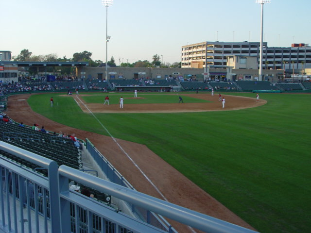 Own work, Banner Island Ballpark in Stockton, California Own work, Banner Island Ballpark in Stockton, California